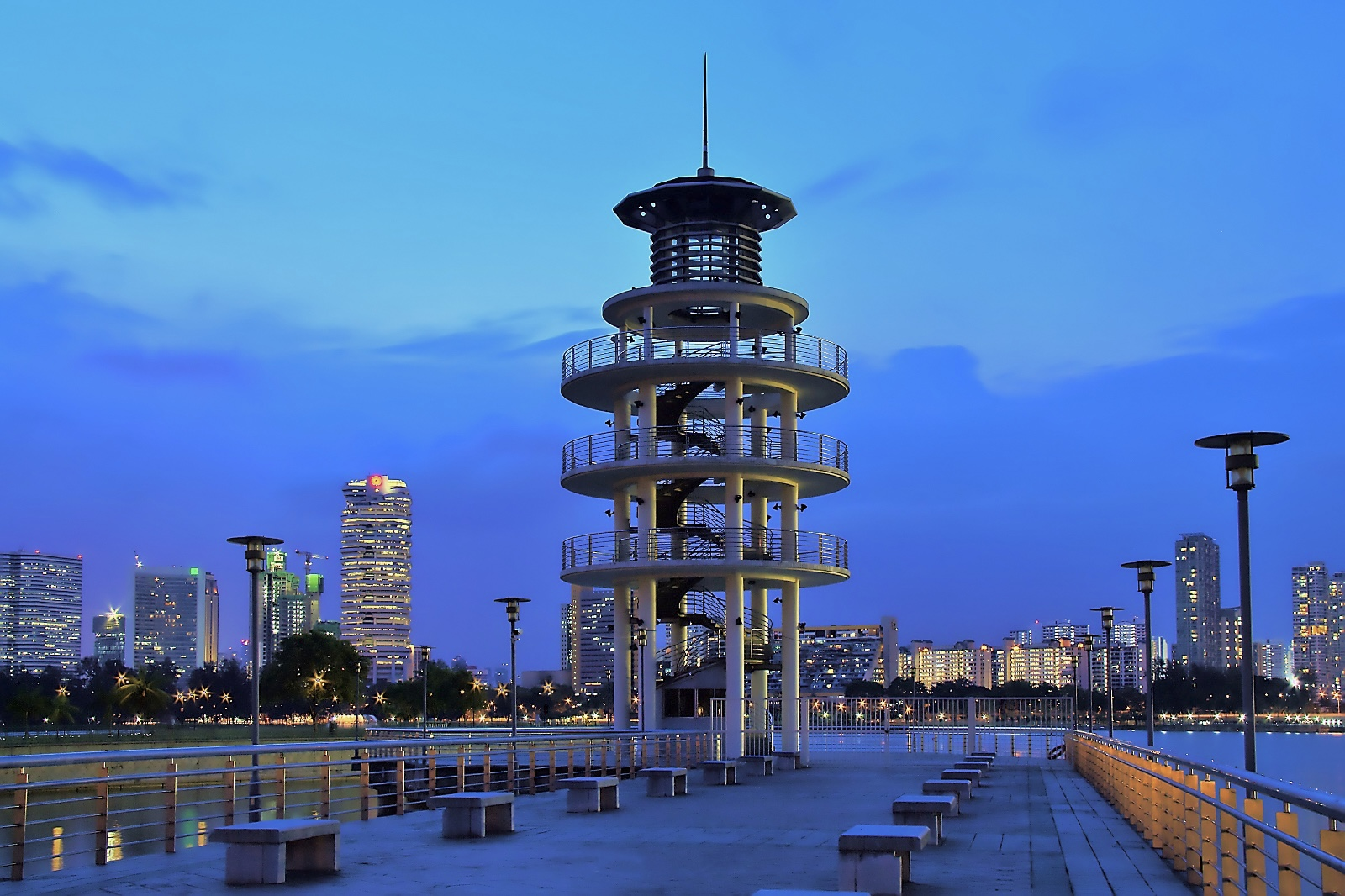 Lookout tower at 50 Tanjong Rhu Place, Singapore, near the Tanjong Rhu suspension footbridge and the Singapore Indoor Stadium.